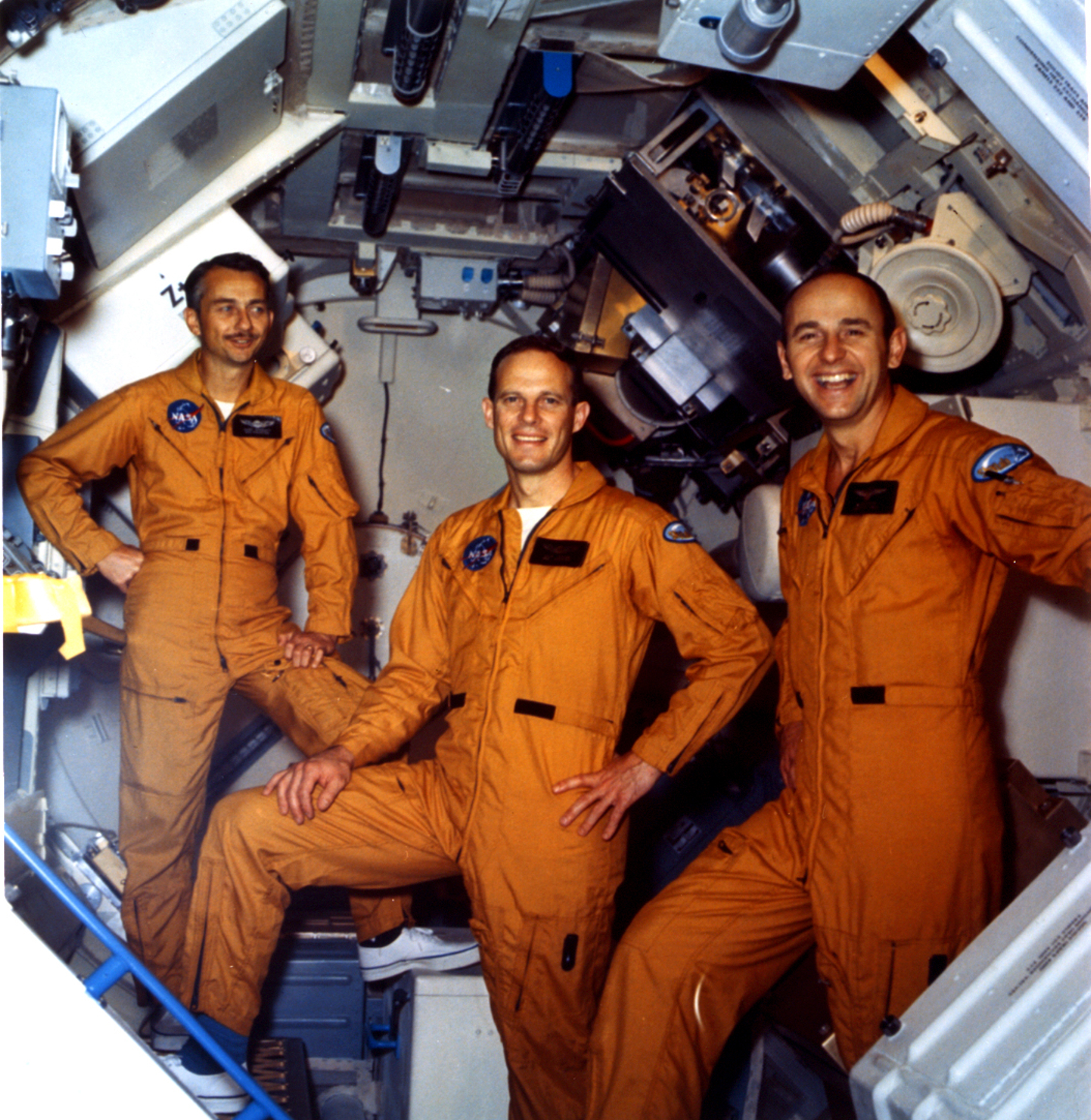 The crewmembers of Skylab 3: astronaut Alan L. Bean, foreground, commander; scientistastronaut Owen K. Garriott, left, science pilot; and astronaut Jack R. Lousma, pilot. This crew spent 59 days and 11 hours in orbit.